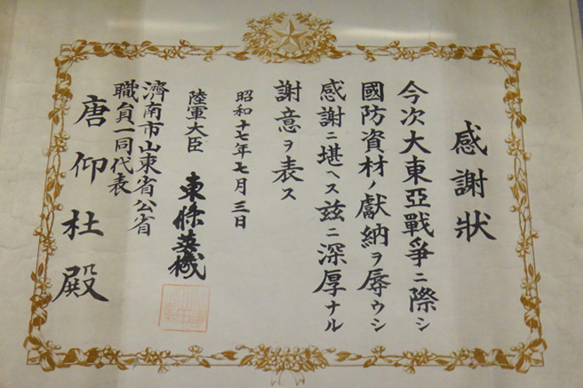 Certificate of appreciation awarded by Hideki Tojo to Tang Yangdu on July 3rd 1942. Photographed at Shandong Provincial Museum.